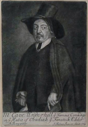 Portrait of Cave Underhill (1634–1710?), English actor. He is in character as Obadiah in The Committee (1665) by Robert Howard.